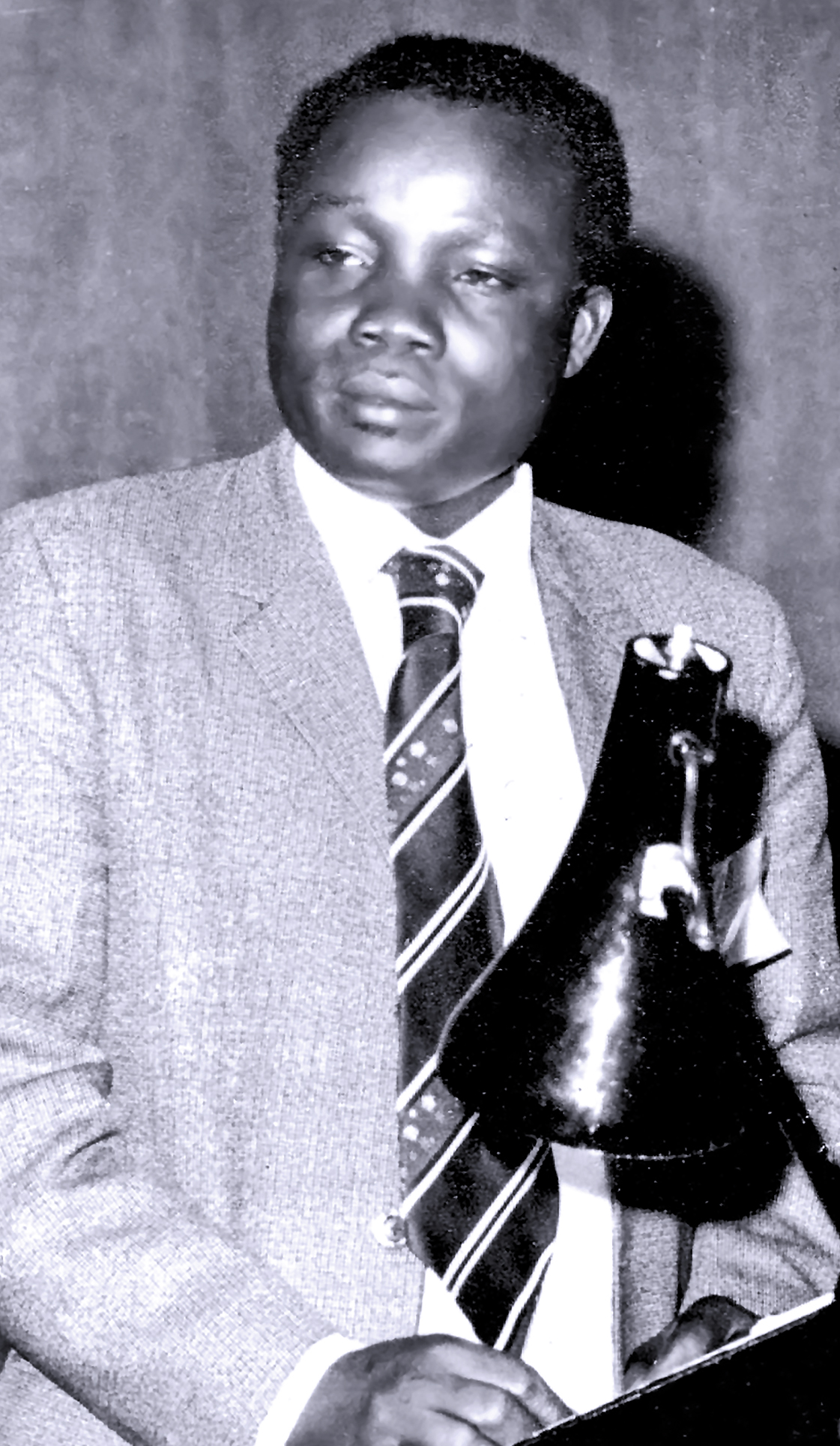 Dr, Emmanuel Amey Ojara addressing a session of the Association of Surgeons of East Africa - ASEA (established in 1950 and ceased to exist in 2007 when it merged into College of Surgeons of East, Central and Southertn Africas - COSECSA).